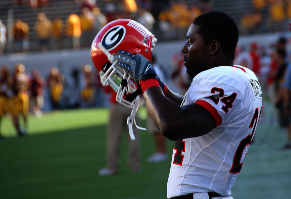 Knowshon Moreno before the 2008 UGA vs. AZ State football game